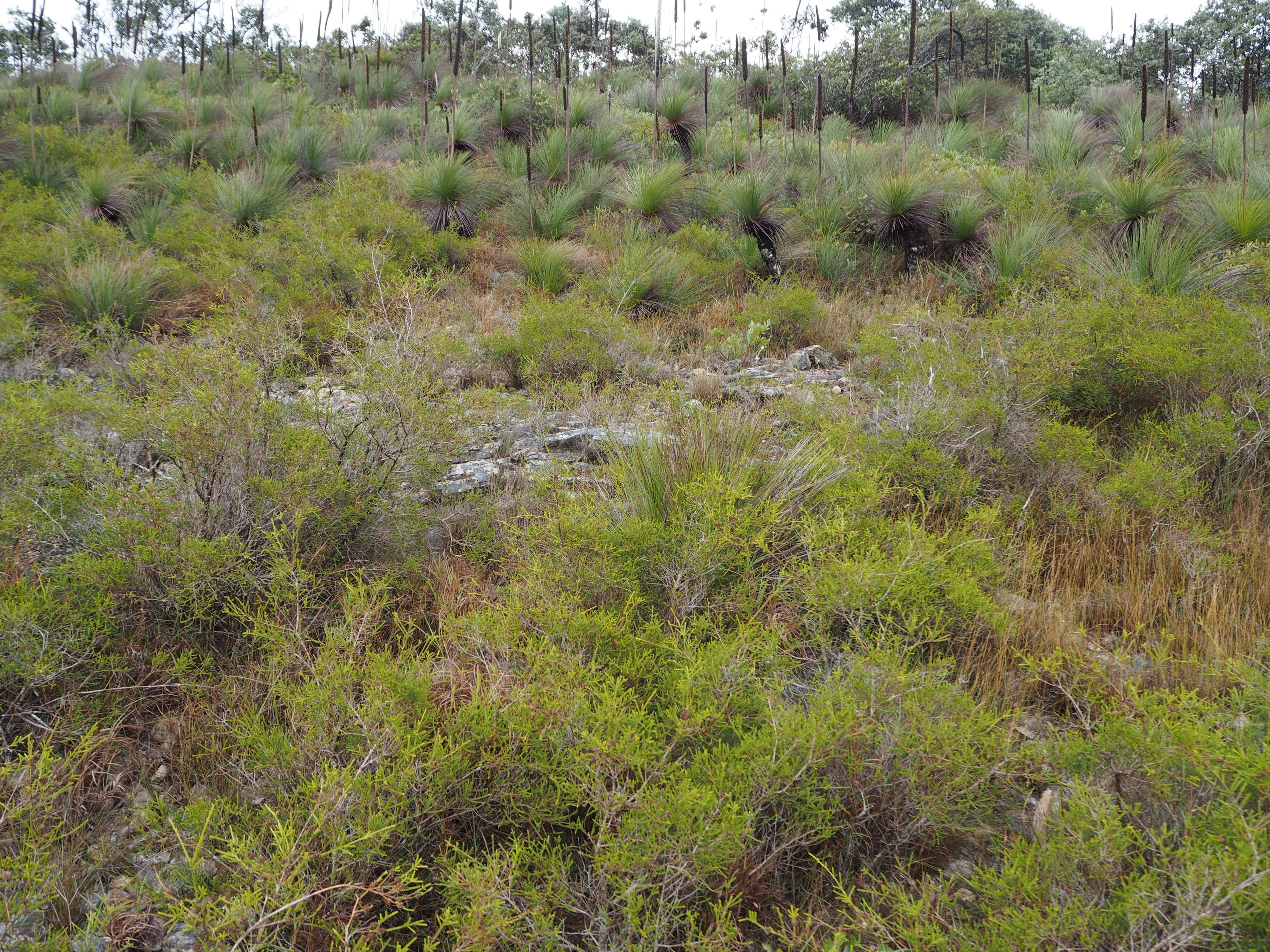 Melaleuca uxorum (habitat) on Mount Emerald